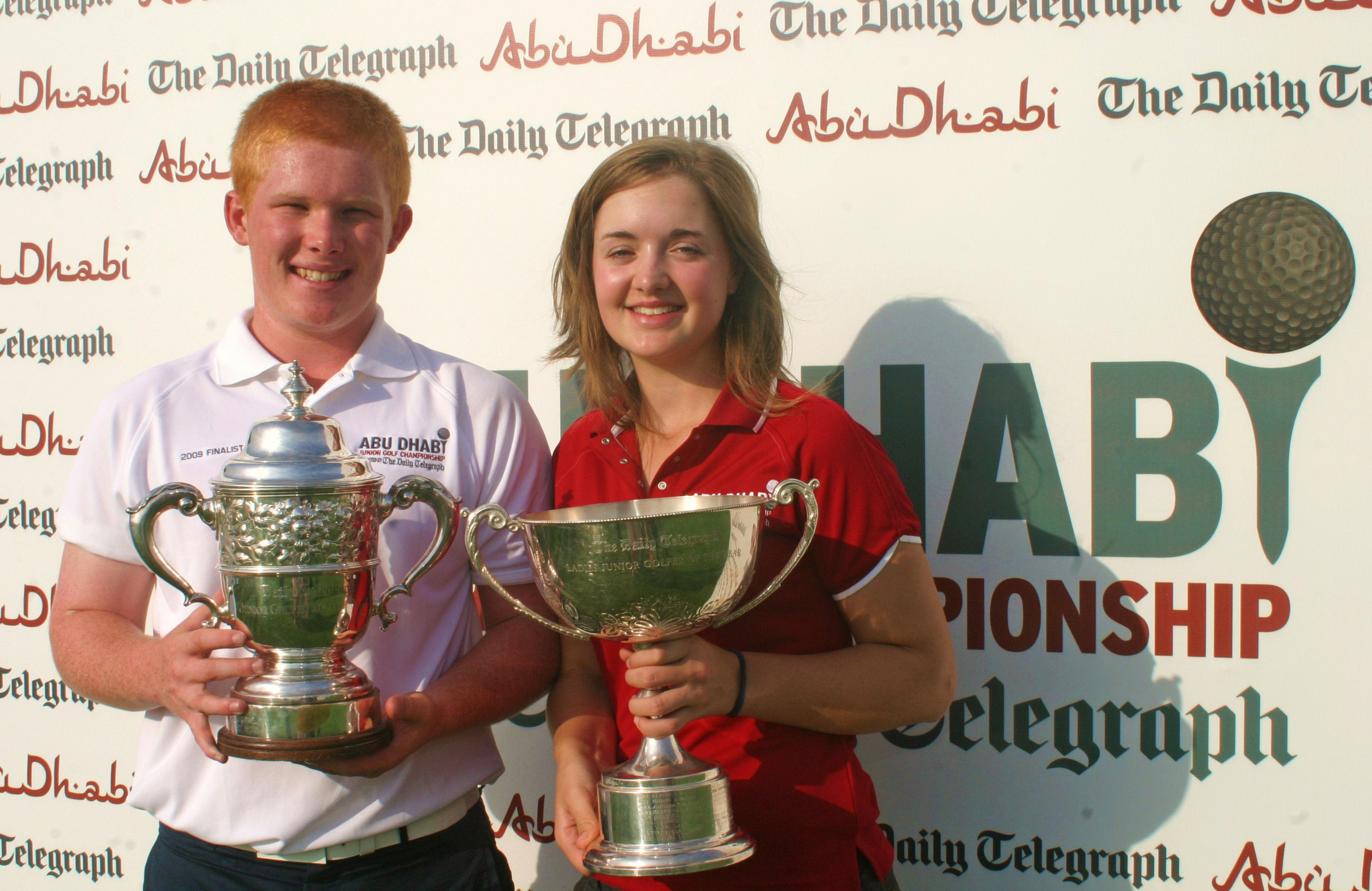 Chris Lloyd and Alexandra Peters show off their trophies for winning the boys and girls titles at the 2009 Abu Dhabi Junior Golf Championship